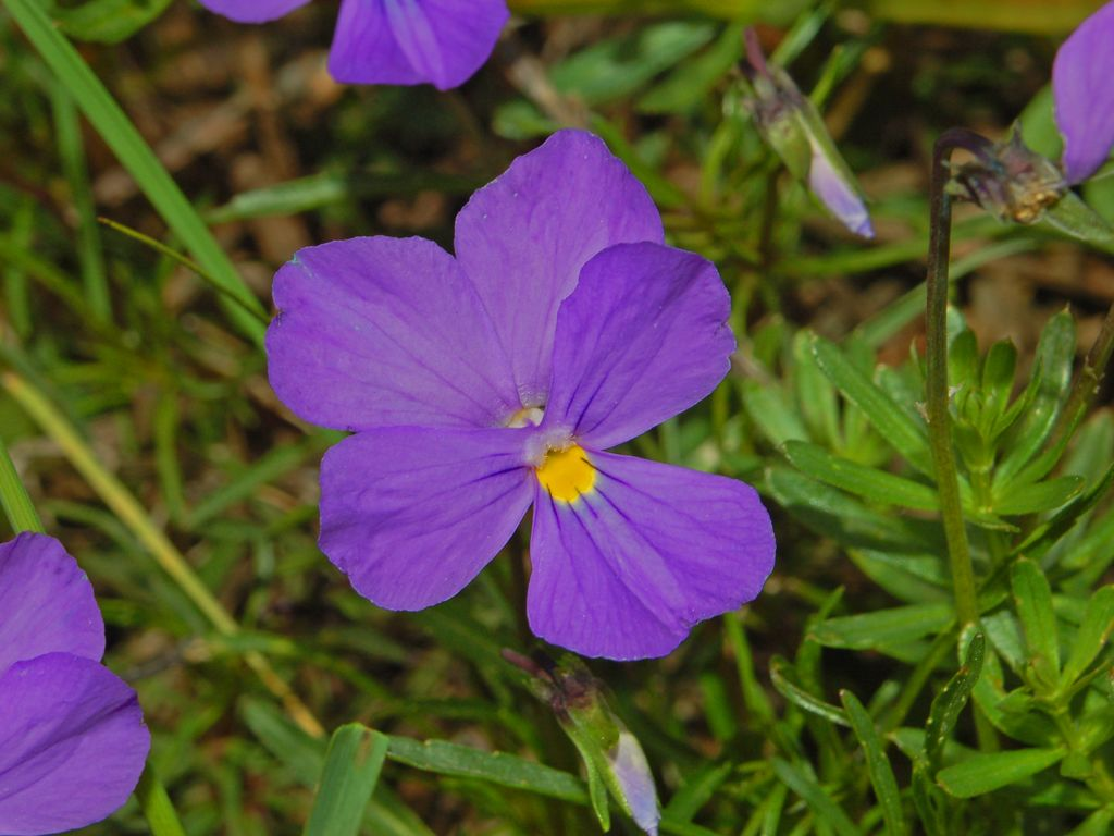 Viola bertolonii - Piani di Praglia, Genova, Italy